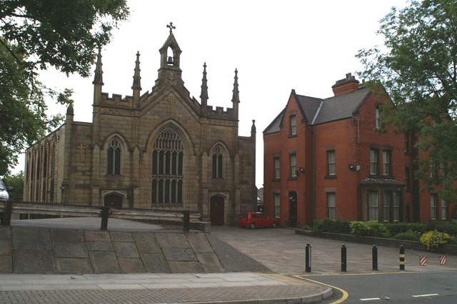 St Mary's RC Church and Convent, Standishgate, Wigan Now run in conjunction with nearby St John's RC Church. Built 1818, architect unknown.